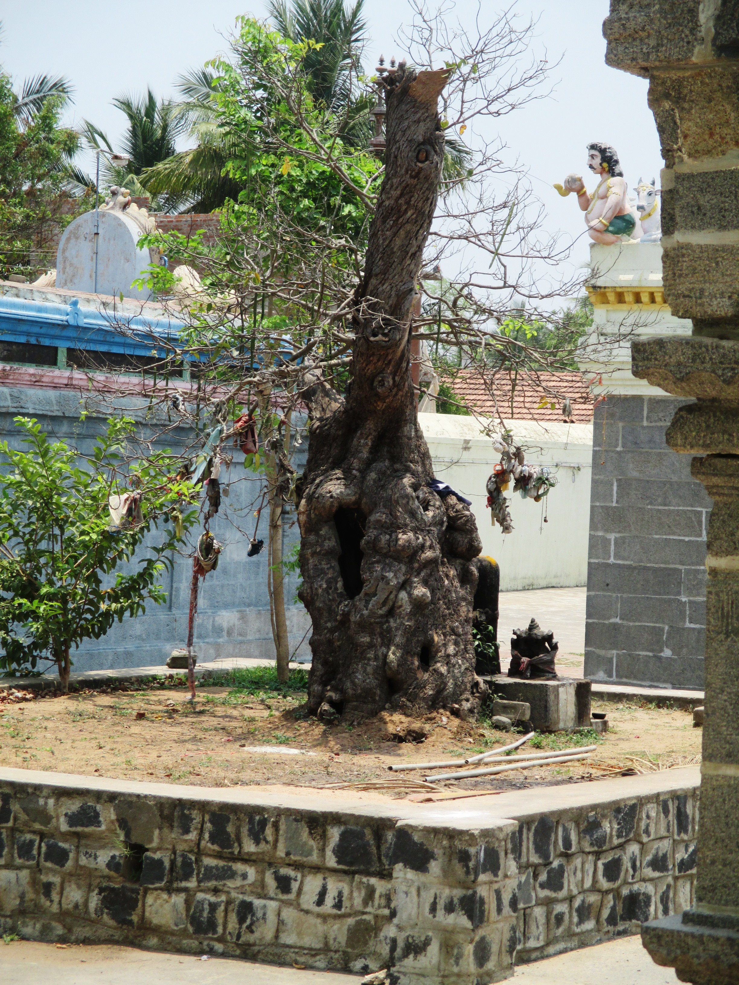 Thirumanikuzhi